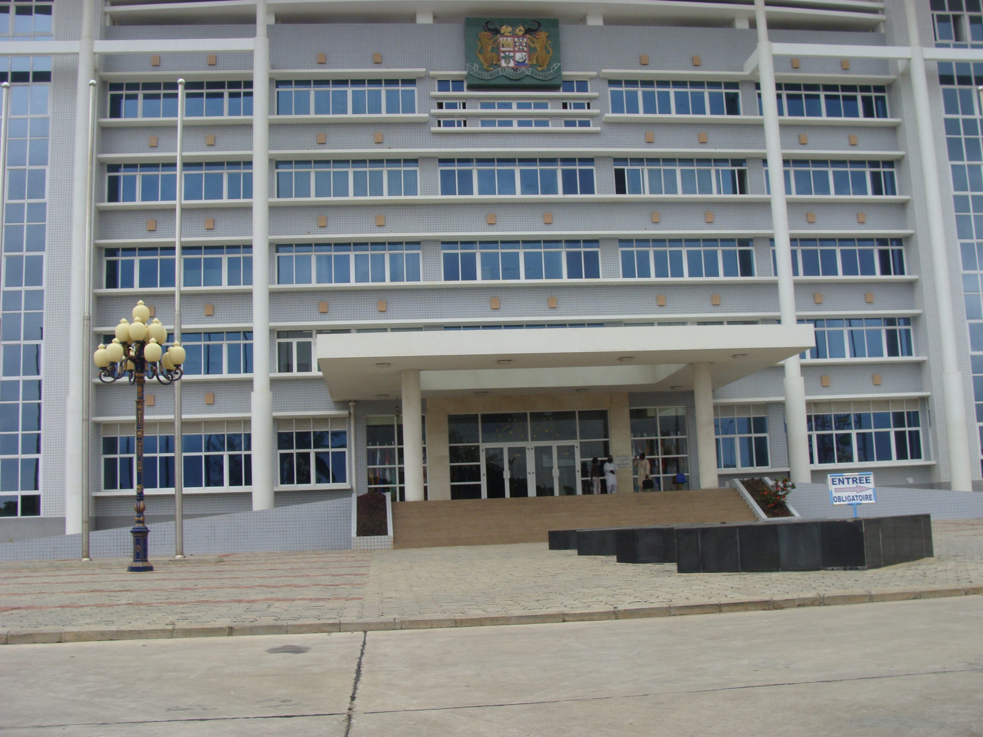 Headquarters of the Benin Ministry of Foreign Affairs in Cotonou, Benin.